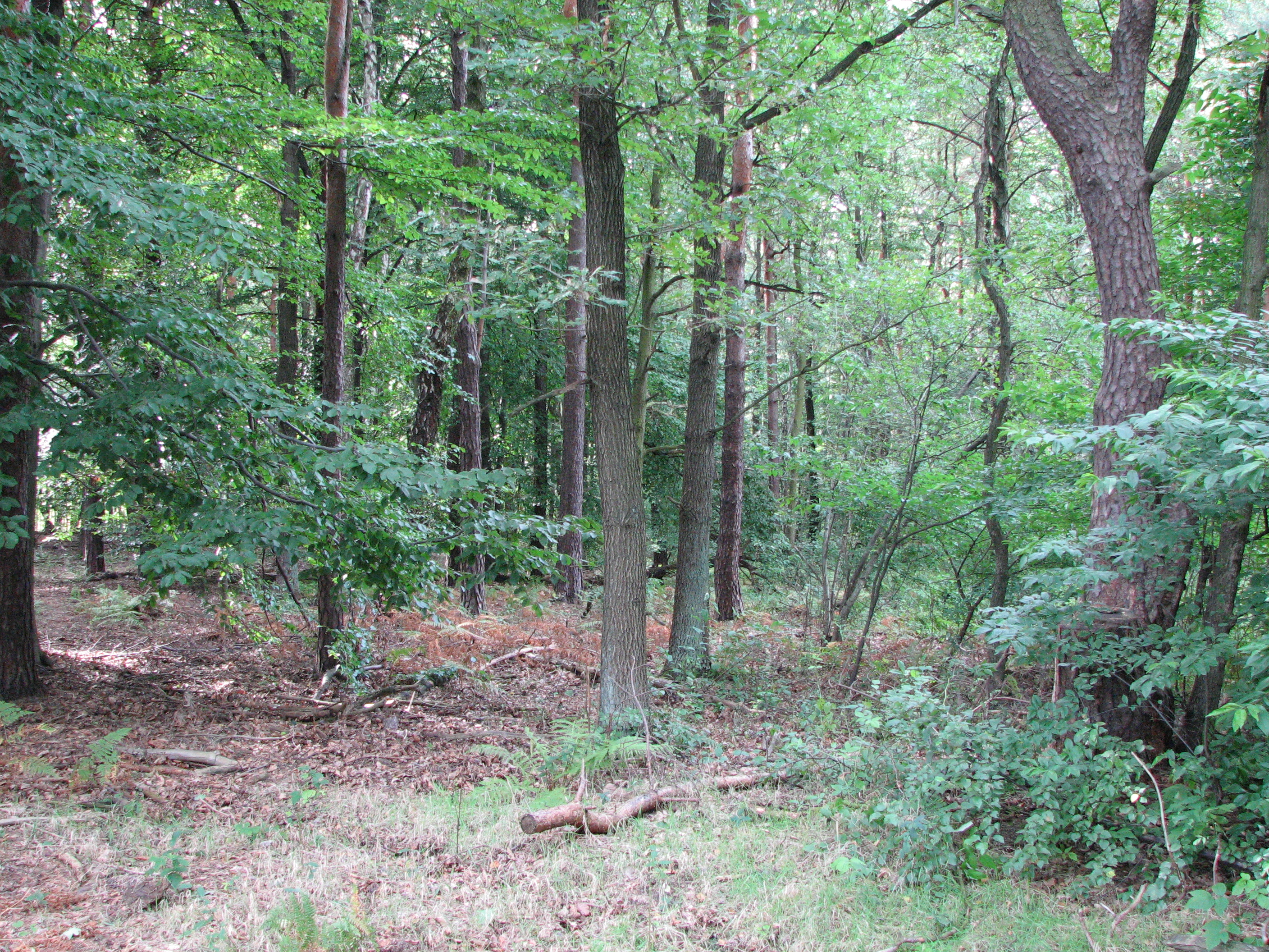 Panewniki's Forests in Katowice, Poland